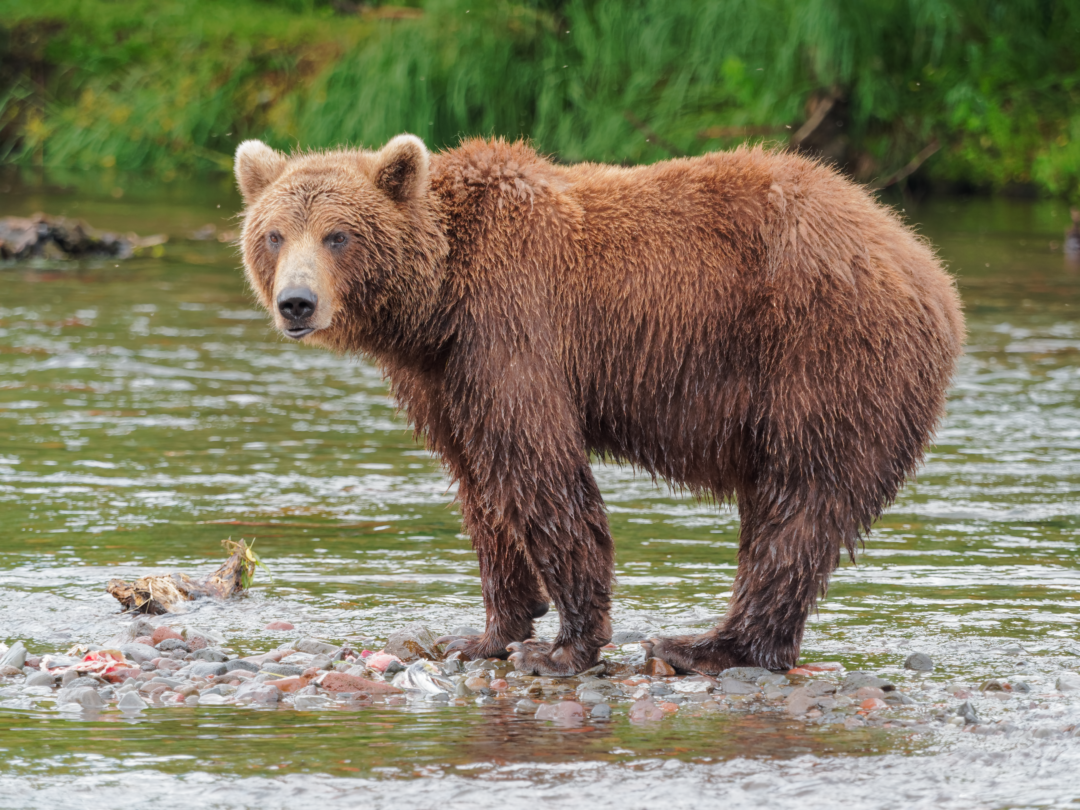 A Kamchatka Brown Bear near Dvuhyurtochnoe taken on July 23rd, 2015.